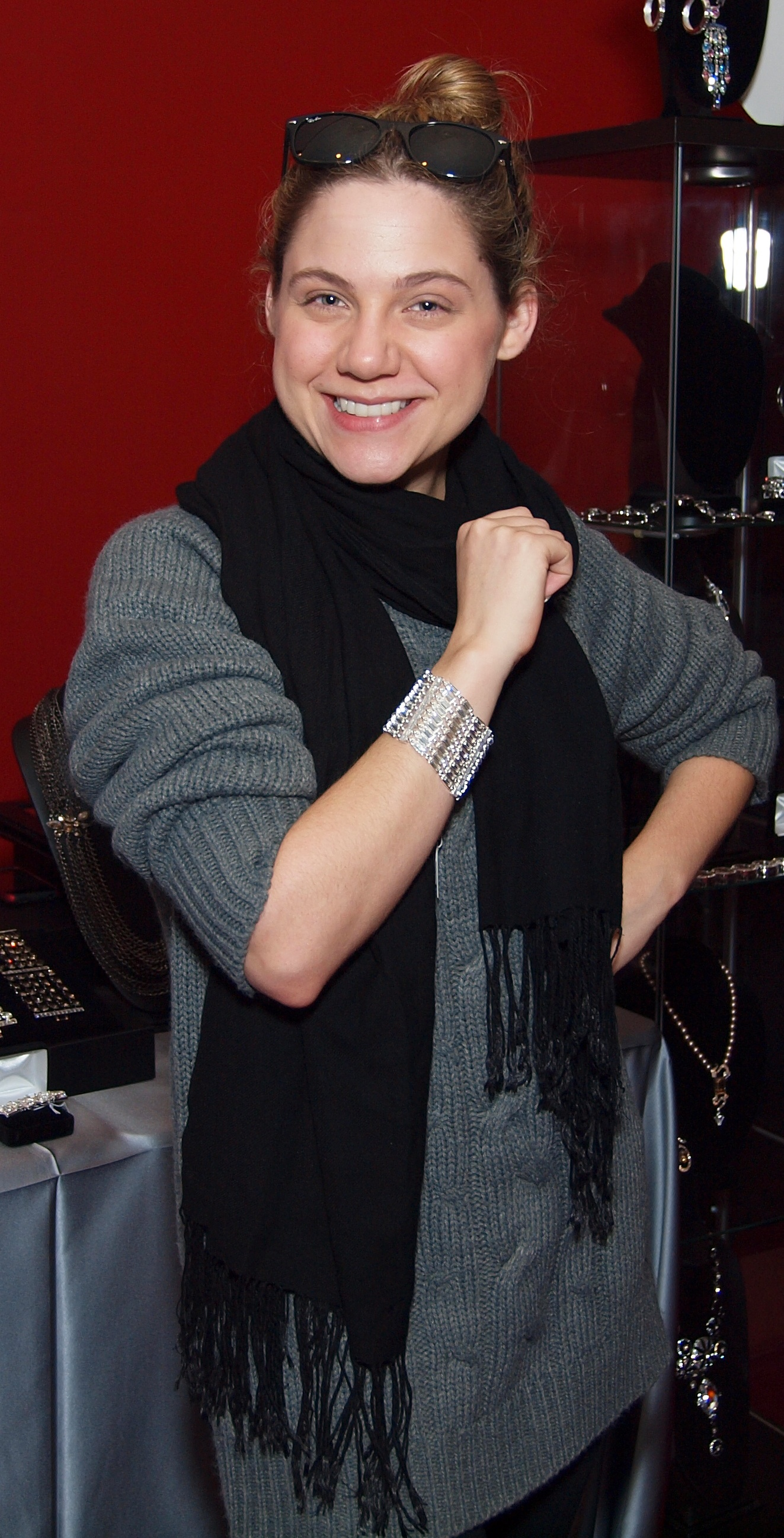 Lauren Collins at the 2010 Gemini Awards